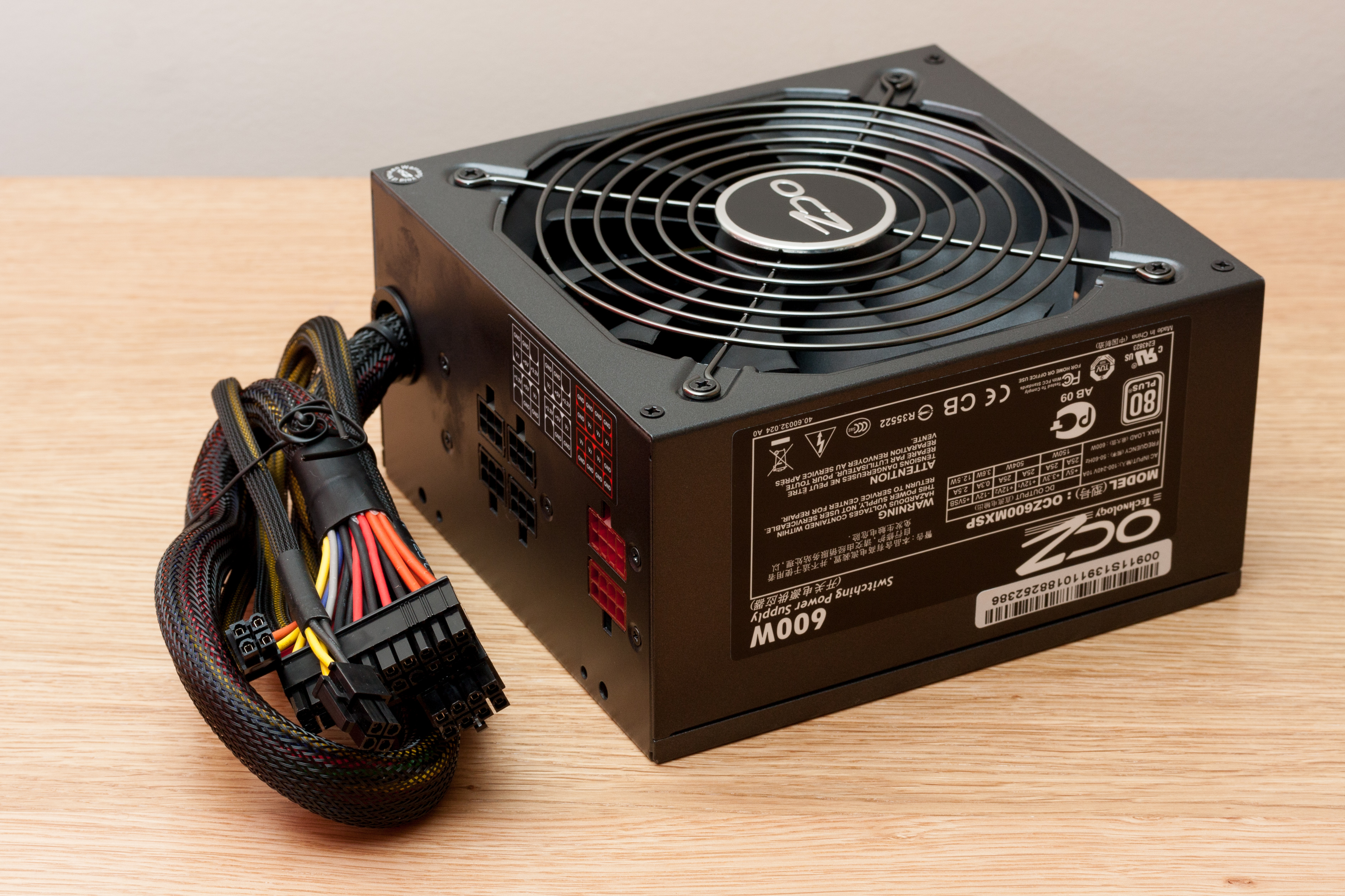 A 600 watt computer power supply unit.